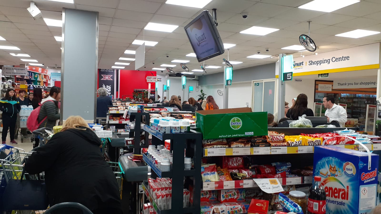 Long lines at Smart supermarket, with all cash points active, unusual during the week.